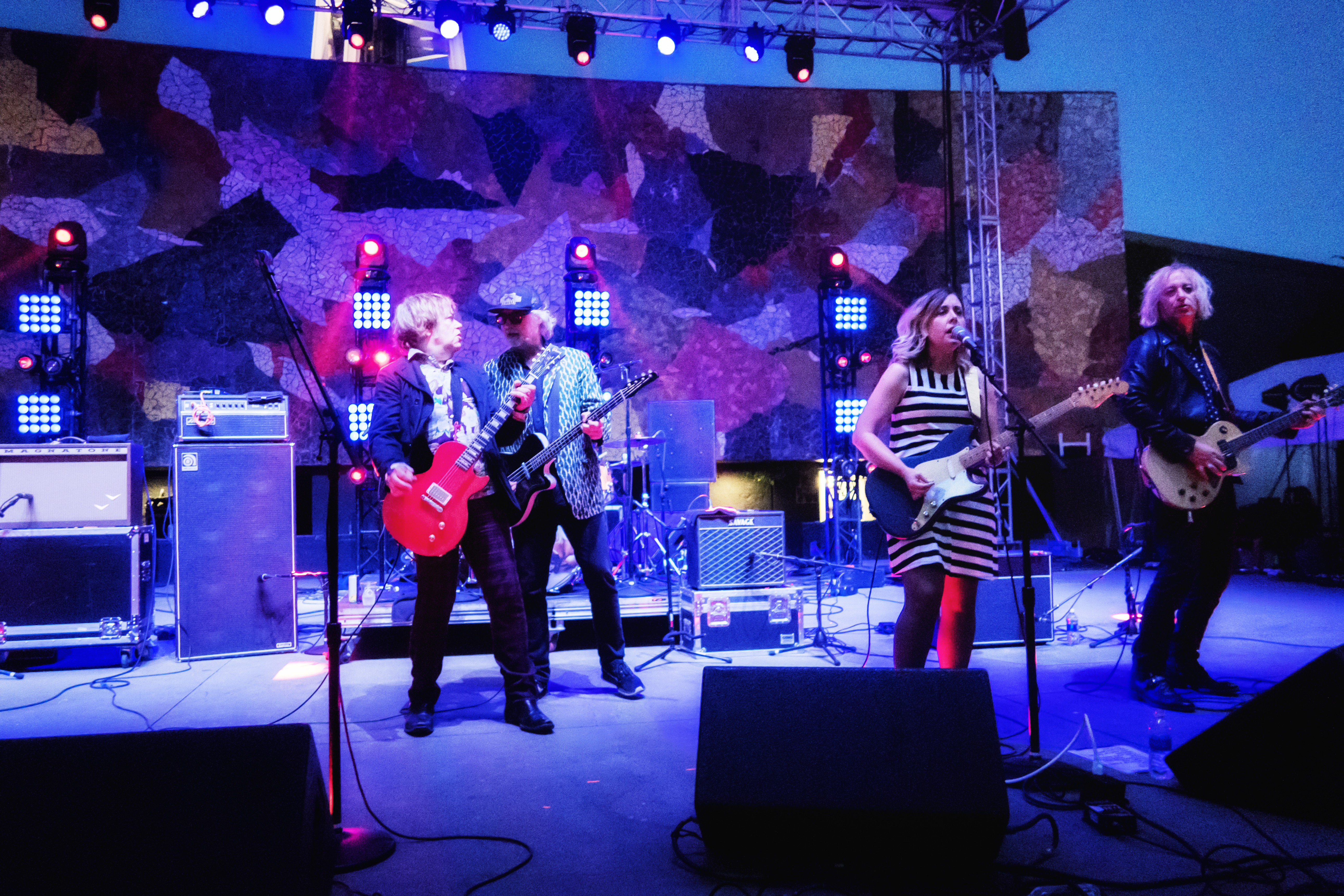 Filthy Friends at Bumbershoot, 2017